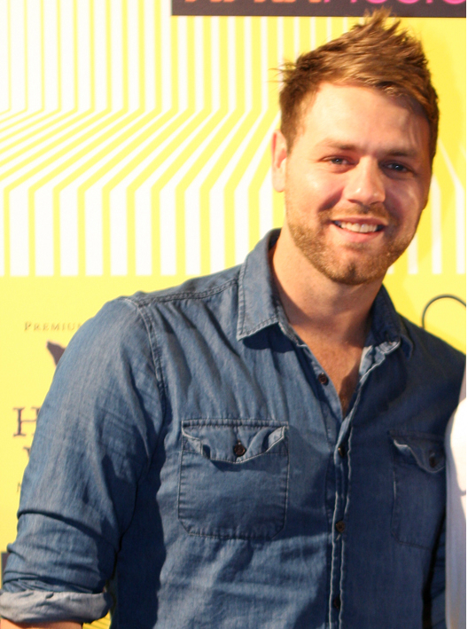 Brian McFadden on the red carpet of the 2012 APRA Awards.